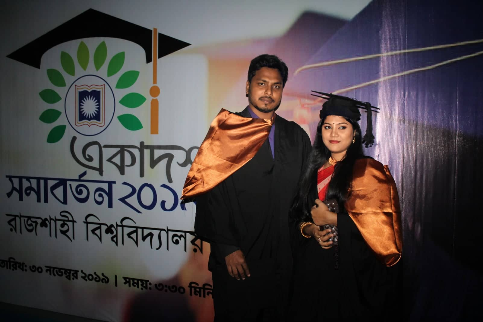 11th Convocation of University of Rajshahi